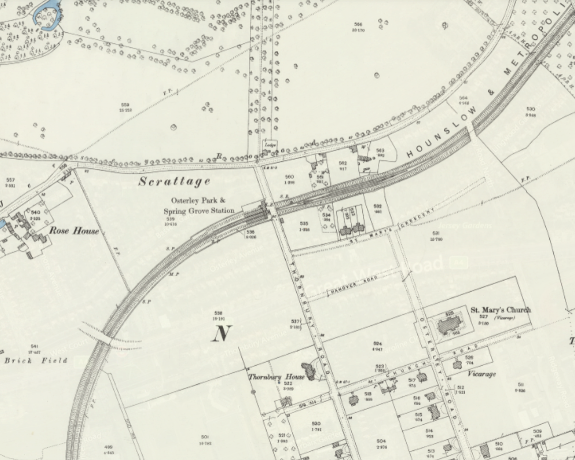 Closed London Underground station Osterley & Spring Grove on an Ordnance Survey Map.